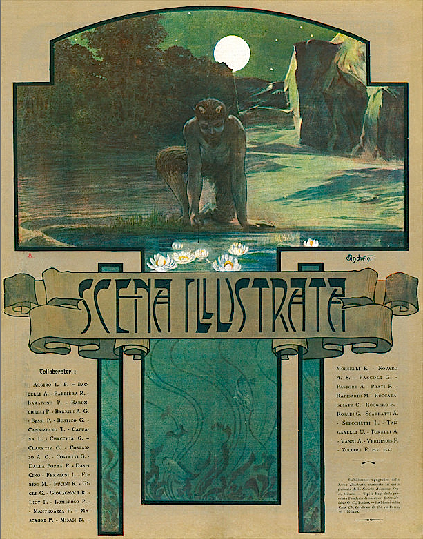 Title page from Scena Illustrata, Italian periodical published in Florence.